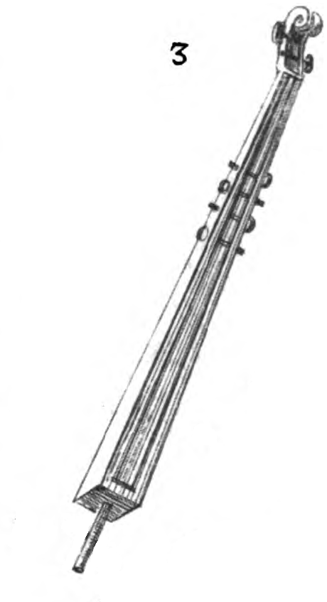 Illustration of the dichord from Franciscus Blanchinus’ De tribus generibus instrumentorum musicæ veterum organicæ dissertatio. Rom 1742, Tab. IV fig. 3 "3. Dichordum, from the carvings. Dichordum calls Sopater, with craft lib.9. Ch.4. & Pyetidem, feu Pactidem calls. Athenaeum lib.4 reported. cap.24. Dichordon Affyriis Festival by Clement of Alexandria Stromat.lib.1.pag.307."— Francesco Bianchini